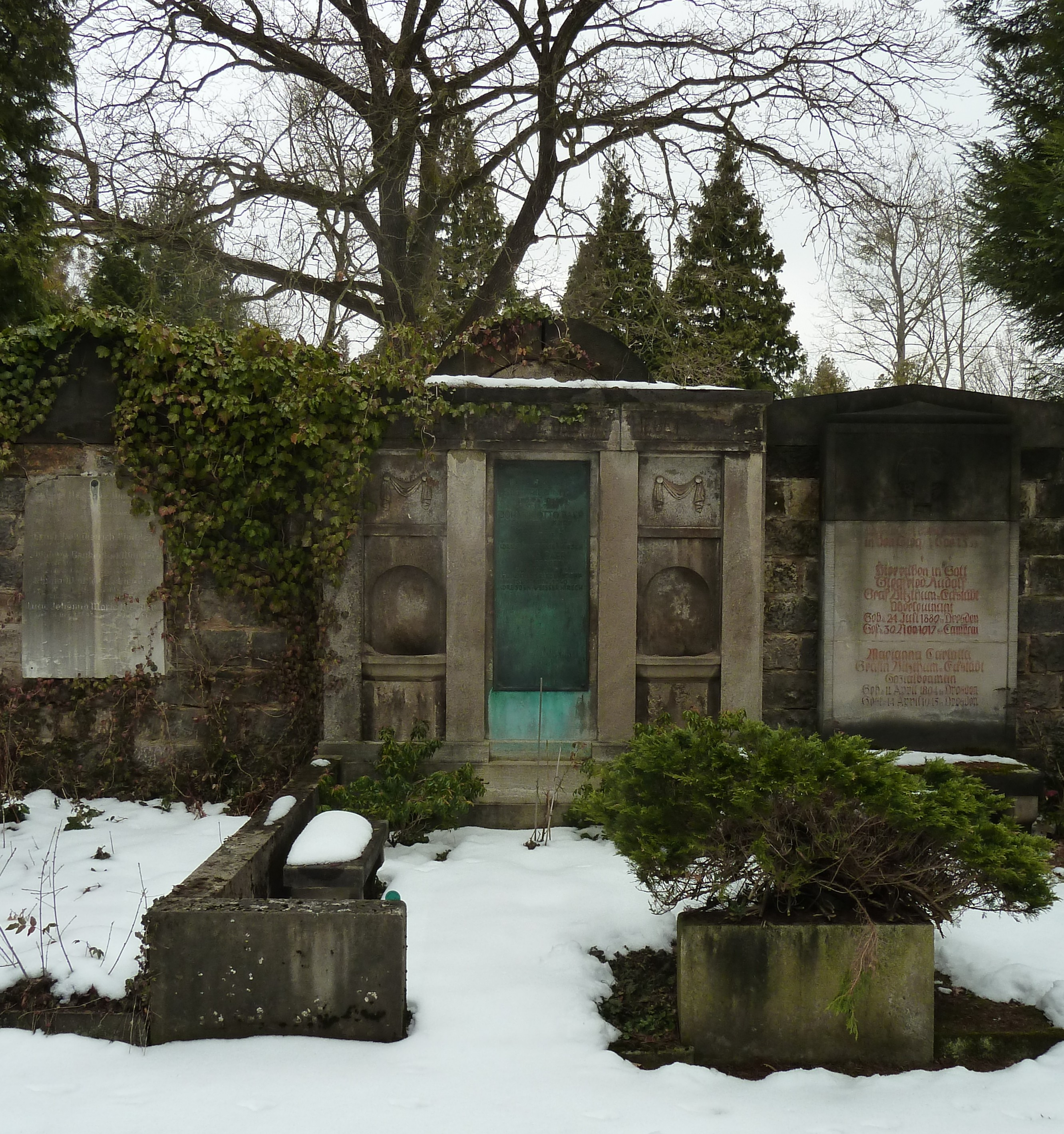 Grave of (Johann) Otto Baer at the Nordfriedhof in Dresden. Text: Hier ruhen in Gott Siegfried Nitze geb. 24.10.1908 gest. 3.12.1917 Johann Otto Baer Fabrikbesitzer geb. 31.8.1846 i. Markdorf i.B. gest. 21.5.1932 i. Dresden-Weisser Hirsch Anna Baer geb. Berger geb. 13.9.1857 zu Ehrenfriedersdorf gest. 1.4.1940 i. Dresden-Weisser Hirsch